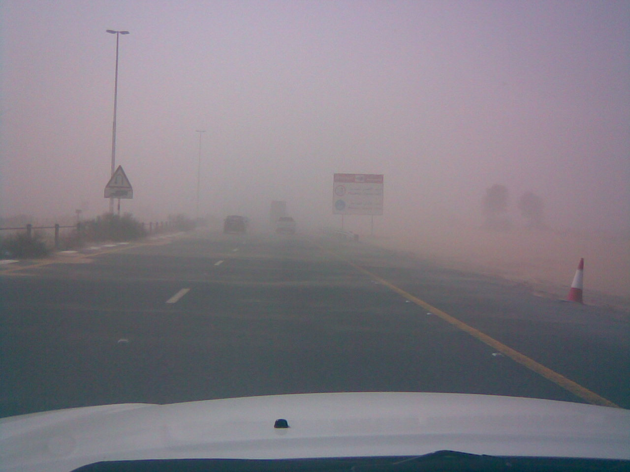 Driving through a sandstorm, Dubai bound from Sharjah on E 611 Road in the United Arab Emirates.